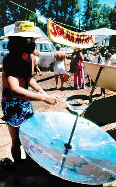 Alt. Energy centre 'Solar cooker' workshop. 1981 NambassaTerms of Use: This photo was taken by the official Nambassa photographer and uploaded by:Mombas 13:34, 4 May 2007 (UTC) 1/ All users of this image are required to attribute this work to "Nambassa Trust and Peter Terry" and the url: " " is to accompany all use. 2/ Attribution. You must attribute the work in the manner specified by the author or licensor. 3/ For any reuse or distribution, you must make clear to others the license terms of this work. Statement by Nambassa Trust and Peter Terry